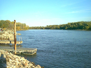 The Missouri River at Omaha, Nebraska, USA Photo by Scott Redd